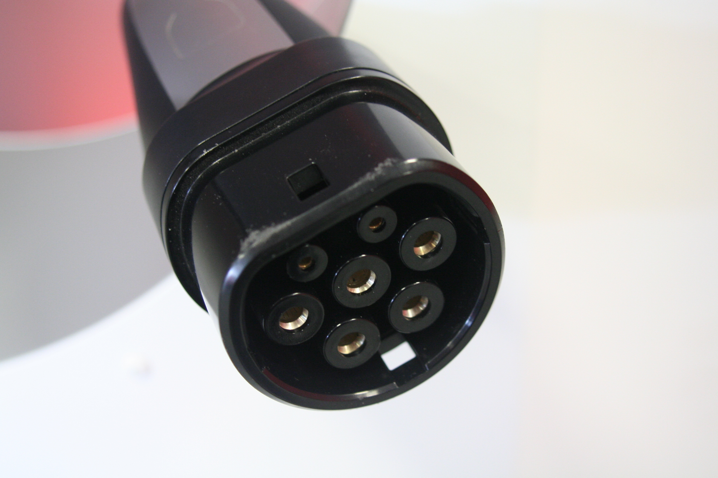 European Tesla Motors Tesla station Supercharger showing modified Type 2 connector-outline charge connector. Photographed at Frankfurt Tesla showroom.